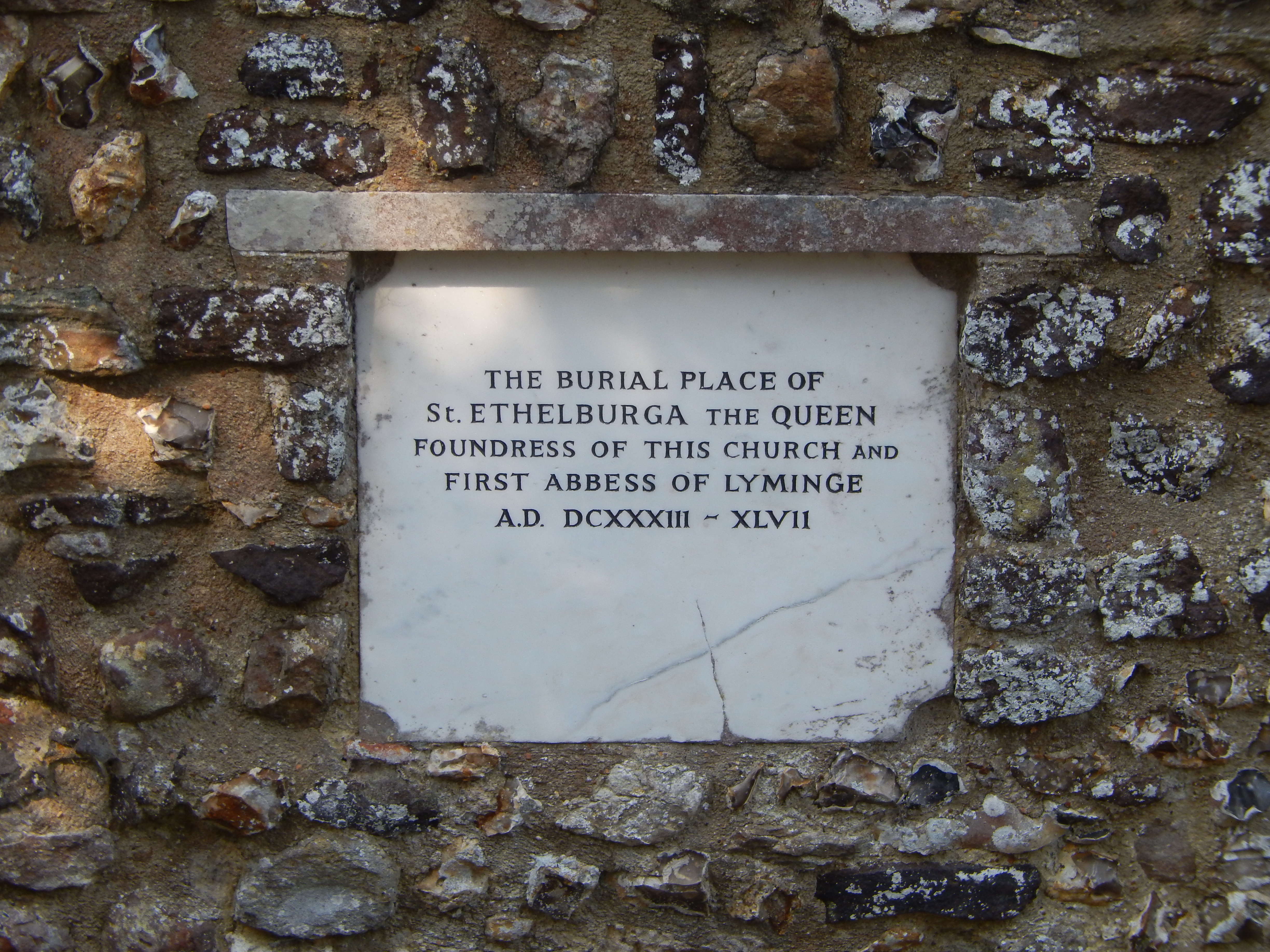 Stone commemorating the burial place of Queen Ethelburga on the south wall of the church of St Mary and St Ethelburga, parish church of Lyminge, Kent.